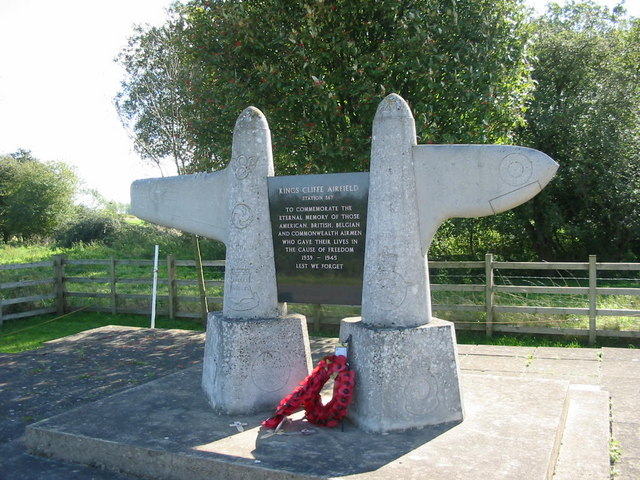 Memorial at Kings Cliffe Airfield This memorial stands at the edge of Kings Cliffe airfield and commemorates the airmen who gave their lives in the cause of freedom 1939 - 1945.